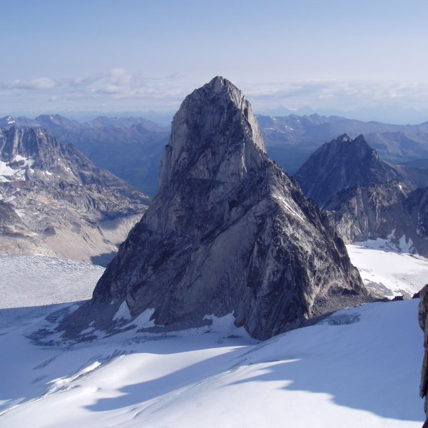 Bugaboo Spire in the Bugaboos, Bugaboo Provincial Park, Canadian Rockies, August 2006. This shot was taken from part-way up Pigeon Spire. I took this picture. You may use or redistribute it at will, as long as you include a credit for my work. (Please let me know if you use it -- I've love to know about its use.) This license for this image covers the uploaded resolution and any lower resolution variant. If you'd like a higher-resolution copy (up to 2272x1704, ~900KB), pop me a note.